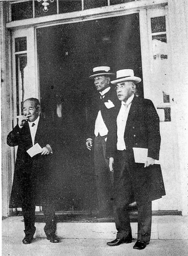 Members of the Capital Restoration Board: from left, Viscount Eiichi Shibusawa, Count Miyoji Itō, Baron Takaaki Kato.